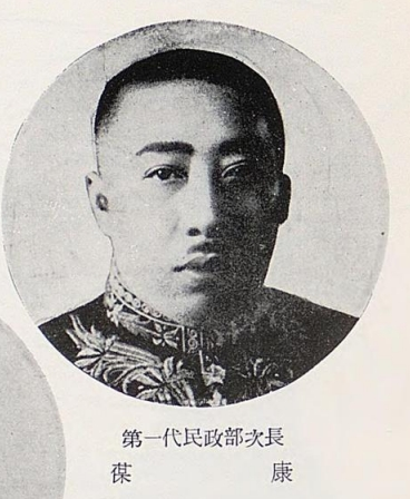 Bao Kang (Pao K'ang) (1892 or 1893 - 1944)